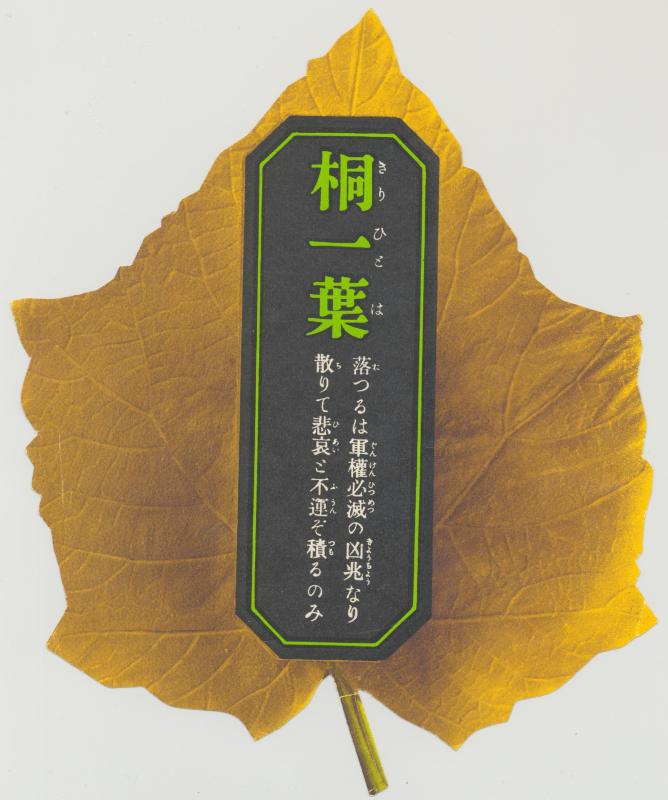 This propaganda leaflet was dropped to Japan, Kiska and others by US Armed Forces."A single paulownia leaf"